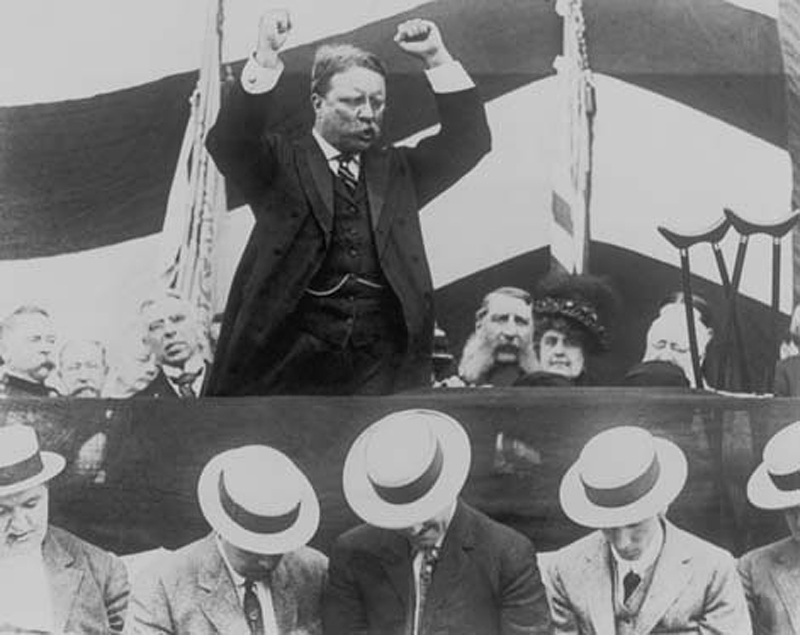 Theodore Roosevelt, 1900.